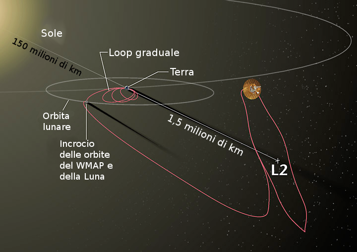 NASA-created illustration of the trajectory and orbit of the Wilkinson Microwave Anisotropy Probe. "This diagram shows the WMAP trajectory and orbit pattern around the second Lagrange Point (L2). The travel time to L2 for WMAP was 3 months, including a month of phasing loops around the Earth to allow a lunar gravity-assisted boost."